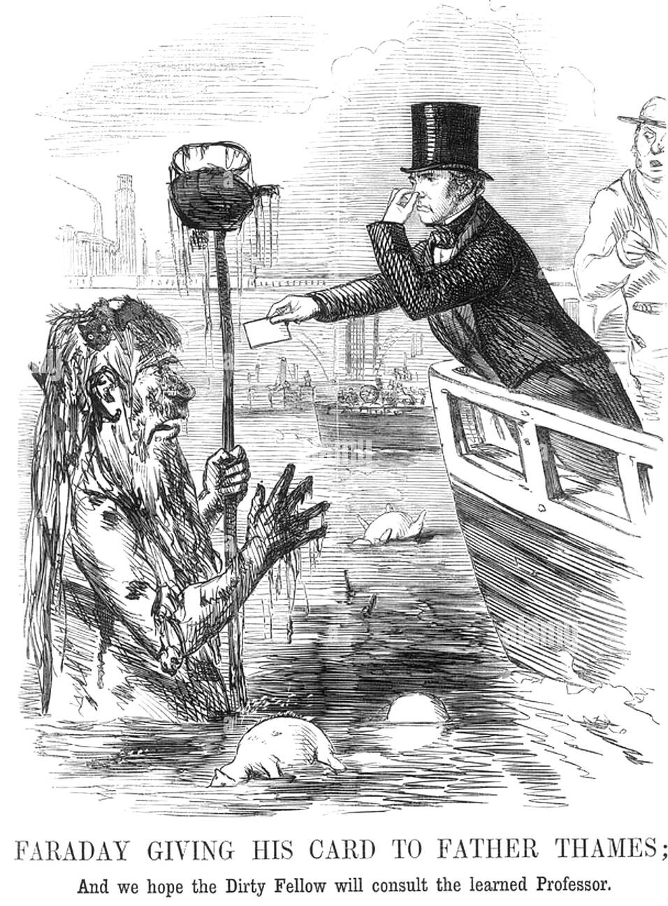 Caricature published in Punch on 21 July 1855 (page 27) in response to Michael Faraday's letter "Observations on the Filth of the Thames", published on 7 July in The Times and commenting on the deplorable state of the River Thames.